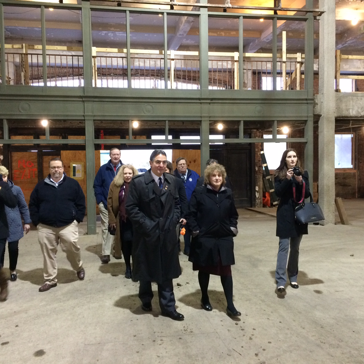 Secretary Pollack joins Springfield Mayor Sarno, touring Union Station and discussing Transit Oriented Development.